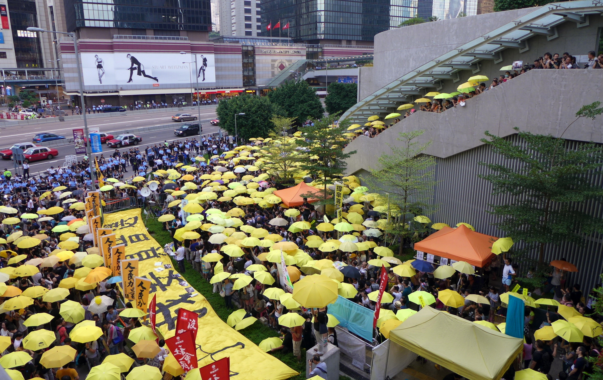 Umbrella Movement 1st Anniverary Memorial